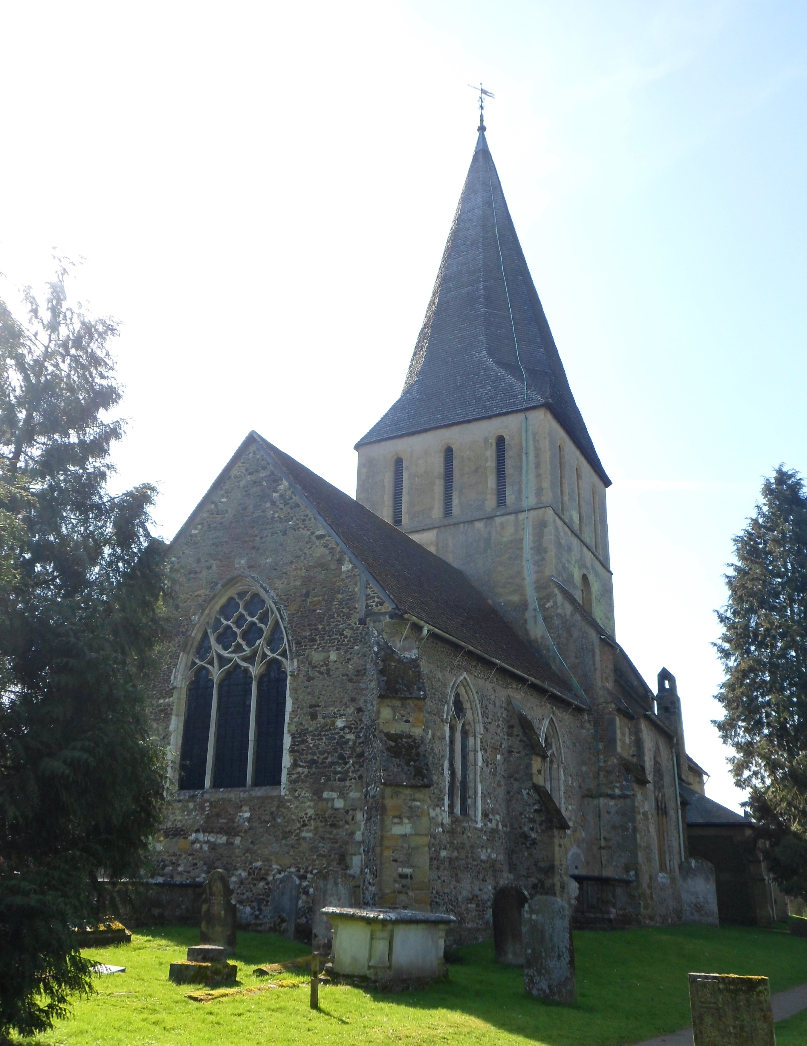 St James's Church, The Square, Shere, Borough of Guildford, Surrey, England.